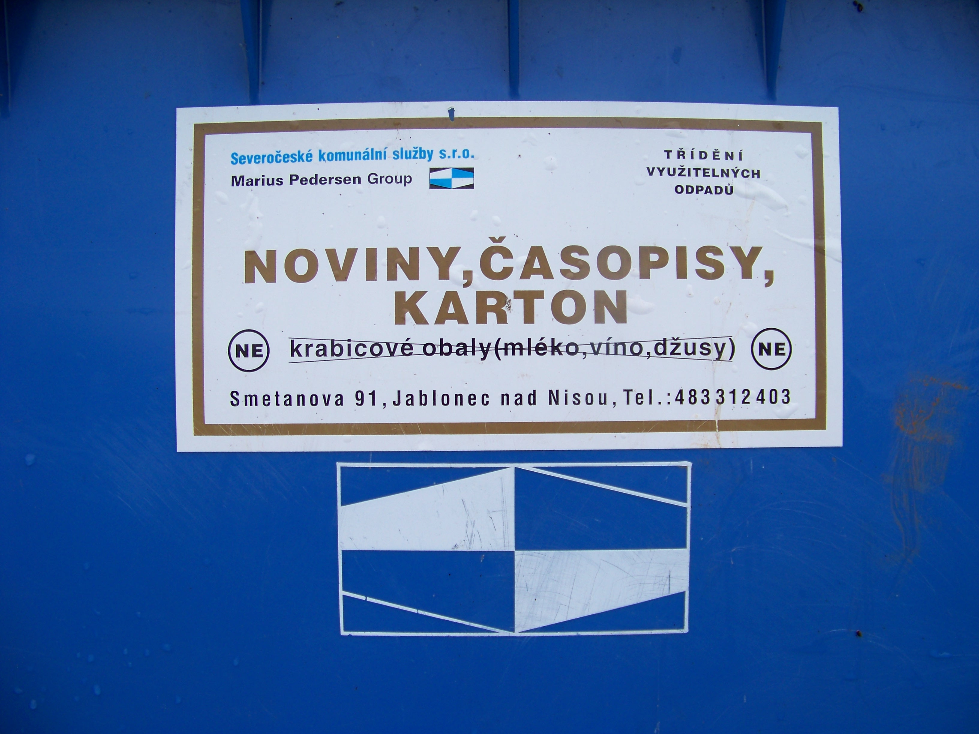 Kořenov-Příchovice, Jablonec nad Nisou District, Liberec Region, the Czech Republic.